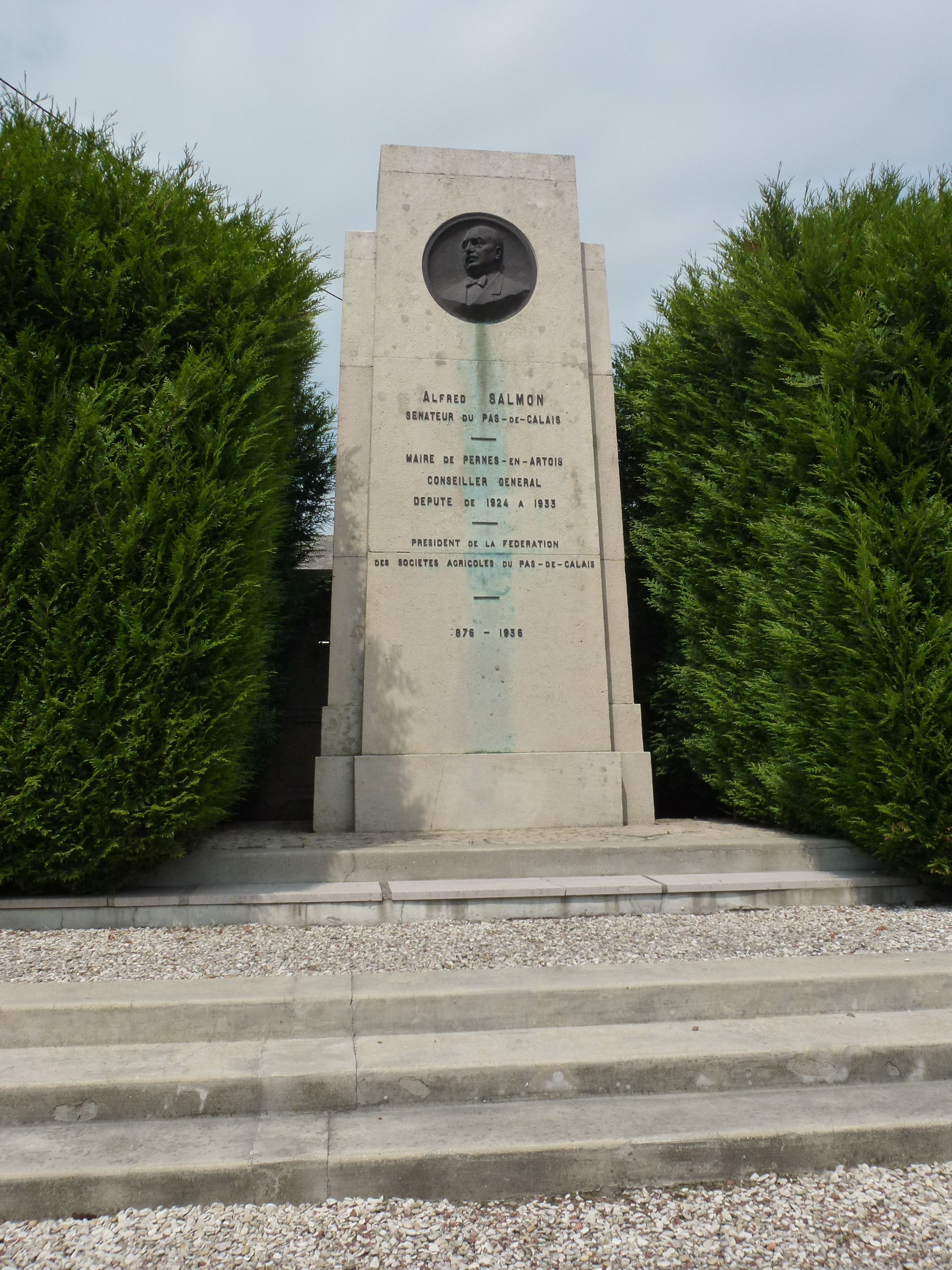 Pernes (Pas-de-Calais, Fr) memorial d'un senateur